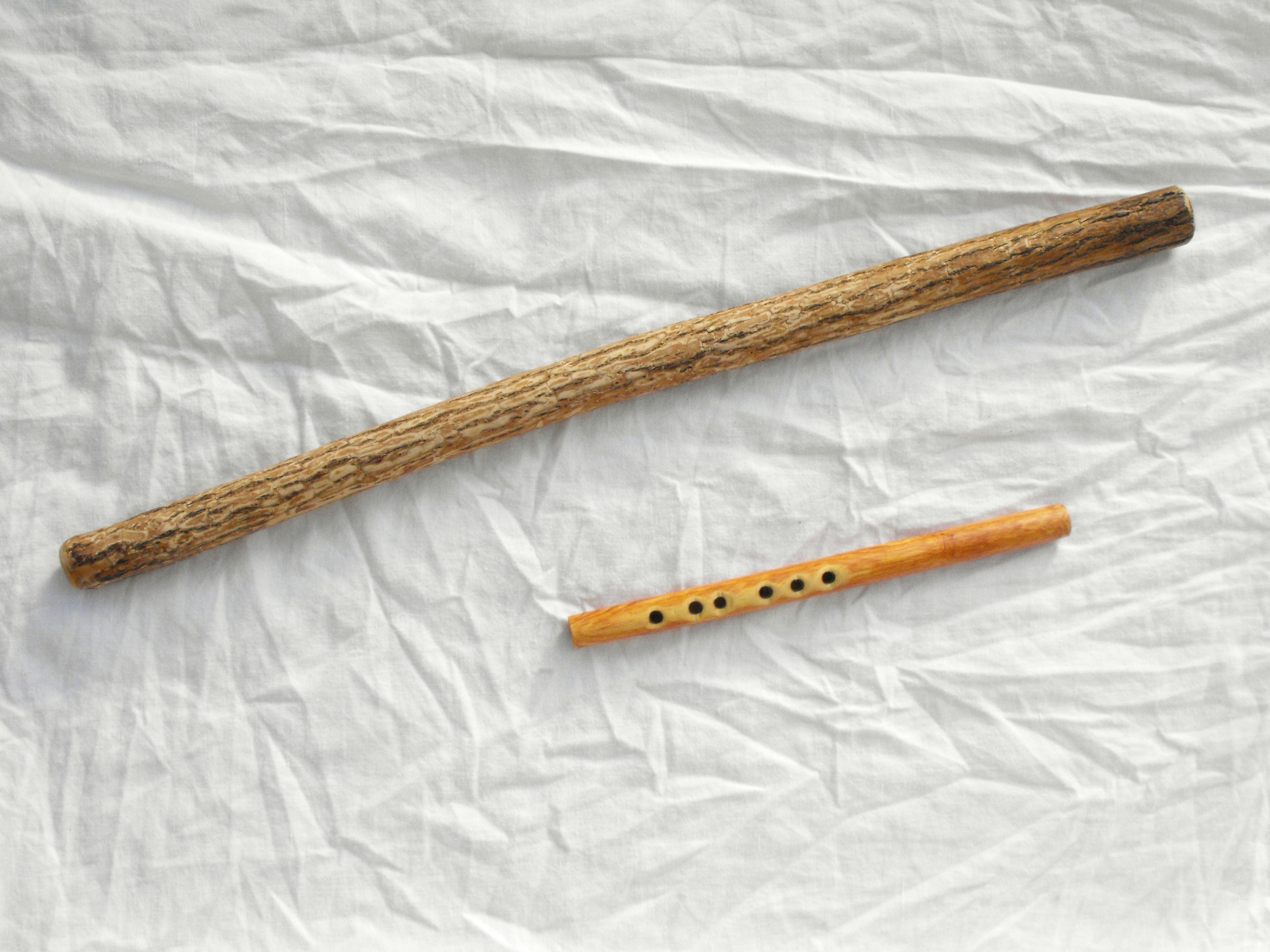 koncovka and six-holes flute, view to holes.